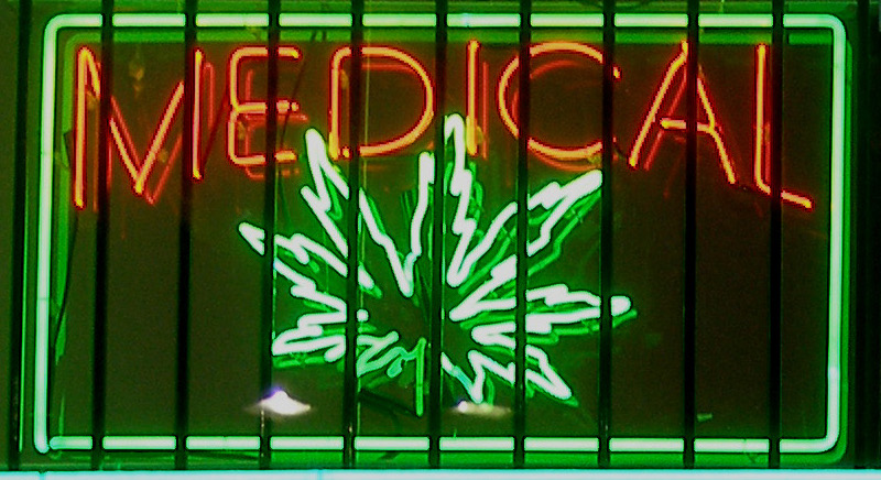 Medical marijuana neon sign at a dispensary on Ventura Boulevard in the San Fernando Valley—Los Angeles, California.